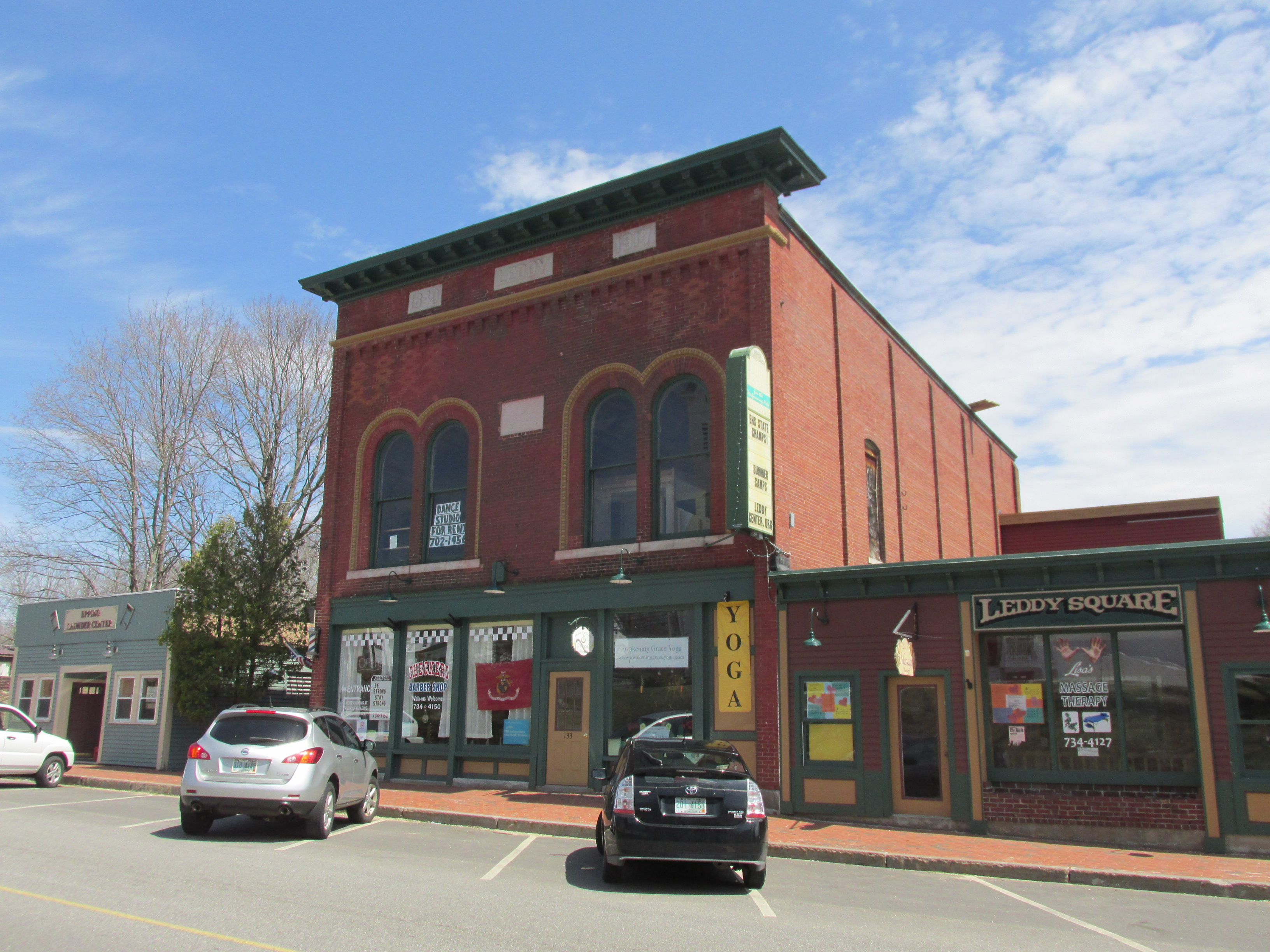 Leddy Building, Epping New Hampshire